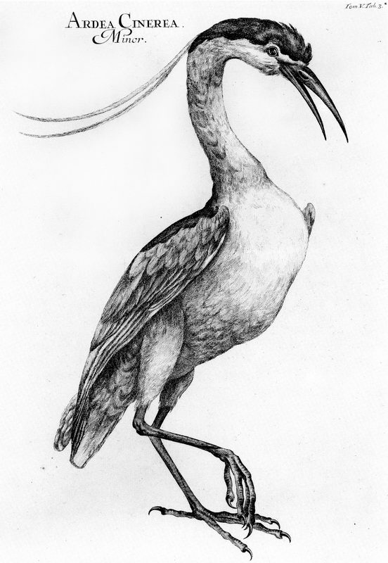 Drawing of a Grey Heron (Ardea cinerea) near lower Danube, done after a drawing by the Italian artist Raimondo Manzini. Published in the 1726 work Danubius Pannonico-Mysicus by the Italian naturalist and soldier Luigi Ferdinando Marsigli (1658 – 1730).